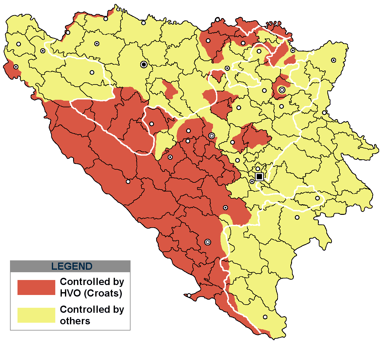 This is an update for the previous map, as the HVO never controlled all parts of municipality of Mostar and Stolac. Also, HVO never controlled neither part of municipalities Nevesinje, Berkovići, Ljubinje and Trebinje. NOTICE: This image is a greatly optimised PNG version of the original GIF version of the image. Color dihtering was removed, among other optimisations. The original image is here: Check its description for licensing etc.